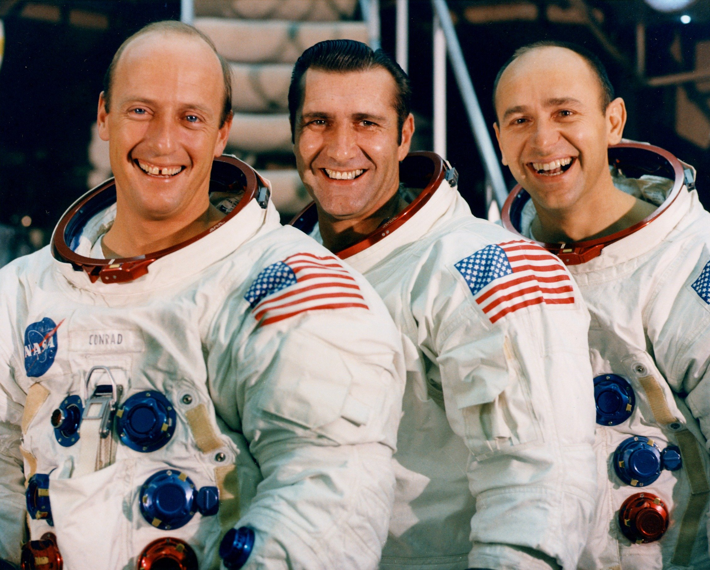 Pete Conrad (left) Dick Gordon, and Al Bean pose in front of a simulator.